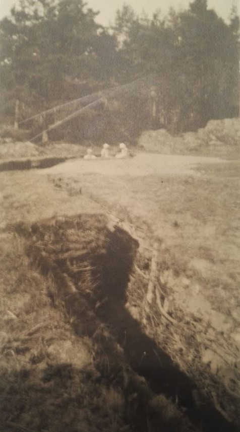 1918 Finnish Civil War: White soldiers inspecting Red Guard trenches in Noormarkku.